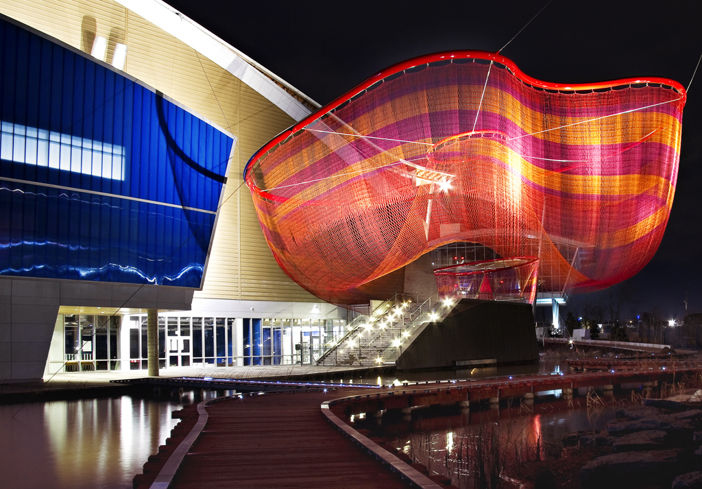 Water Sky Garden in Vancouver, 2010 (Photo: Christina Lazar-Schuler)